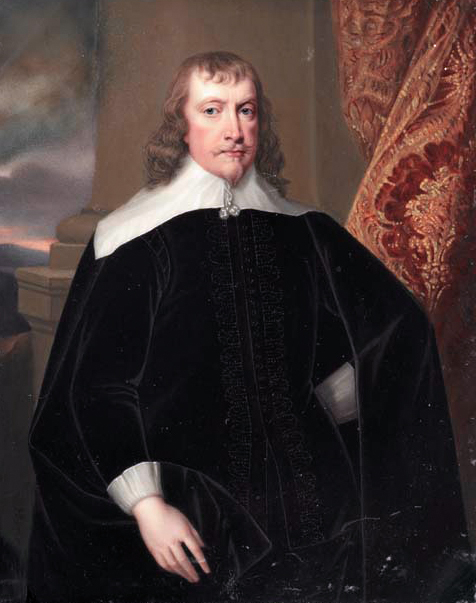 Francis, 4th Earl of Bedford, standing in black velvet doublet, trousers and cloak, large white lawn collar with tassels, long curling fair hair, pointed beard and moustache; pillar, gold-embroidered red draped curtain and landscape beyond signed on the obverse 'HBone' (lower left) and signed and dated in full on the counter-enamel 'Francis Earl of Bedford 1636. (Painted for James Pickering Ord Esqr.) London 1827 Painted by Henry Bone R.A. Enamel painter to His Majesty, and Enl. painter to His late R.H. the Duke of York &c &c After Vandyke in the possession of the Duke of Bedford - Woburn = Abbey Bedfordshire' enamel on copper 189 x 149 mm.